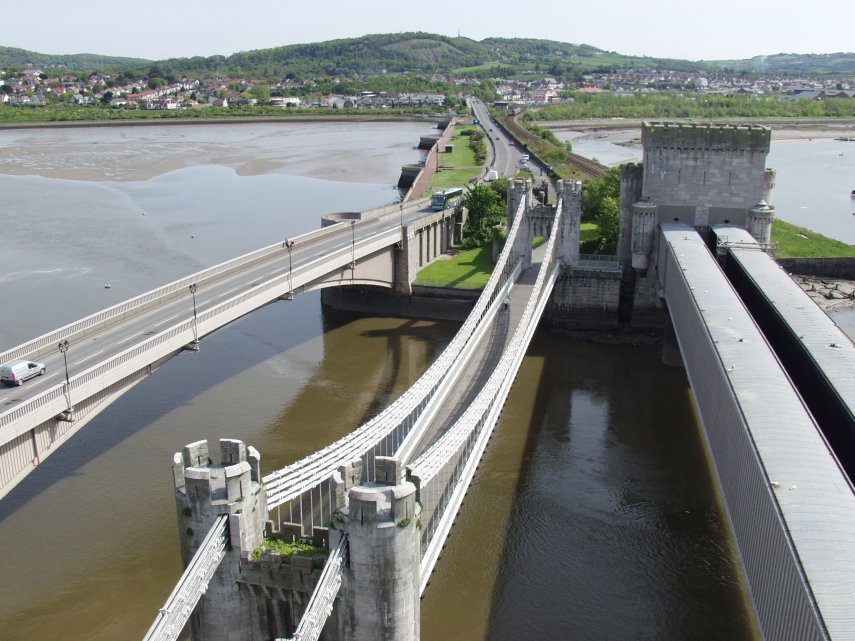 own photo taken from castle